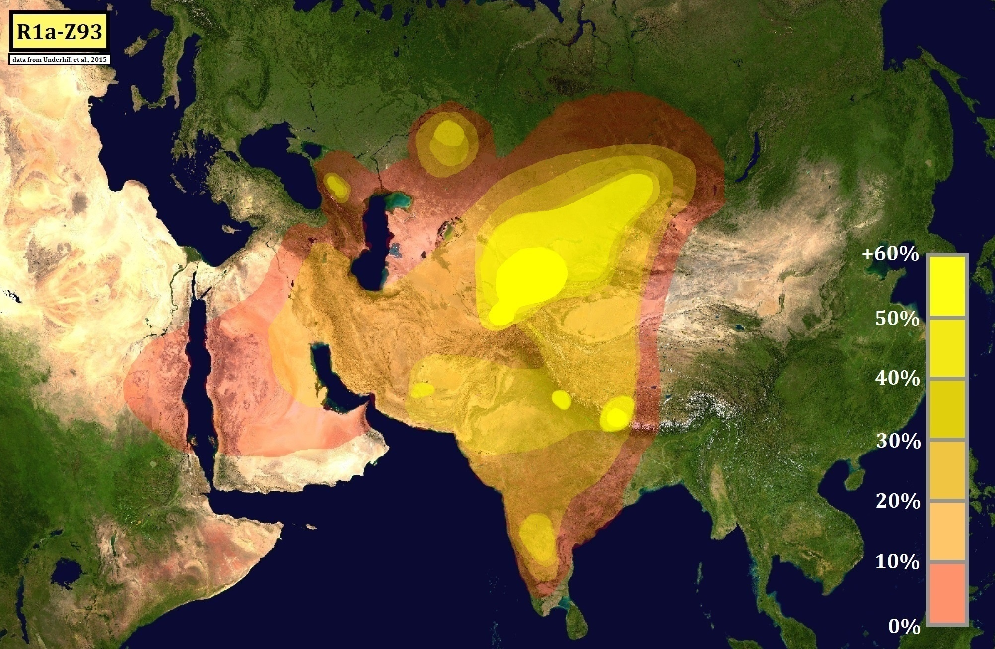 R1a Z93 frequency in Eurasia. Data based on Underhill et al., 2015. Map cropped from